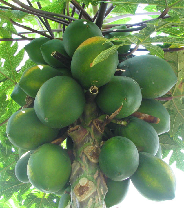 Carica papaya (Papaya, "Tropical Dwarf") - fruit